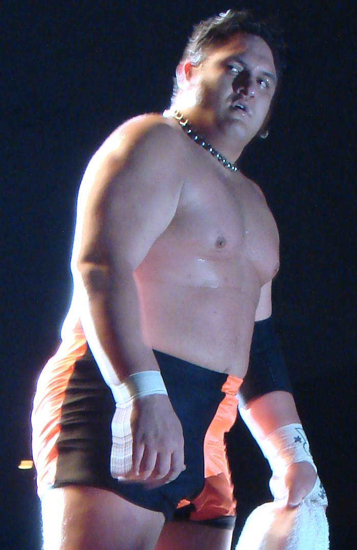 Samoa Joe at a TNA Live Event. April 20, 2007. Taken by myself.